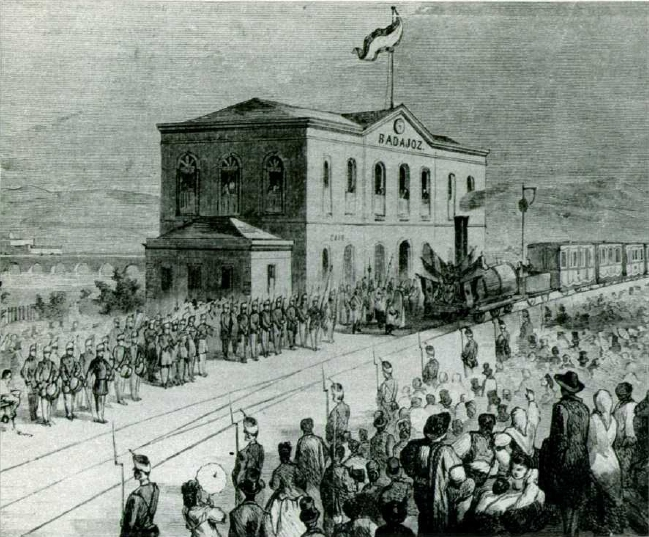 Inauguration ceremony of the line between Badajoz and the portuguese frontier, at the Badajoz Railway Station, on 1863.